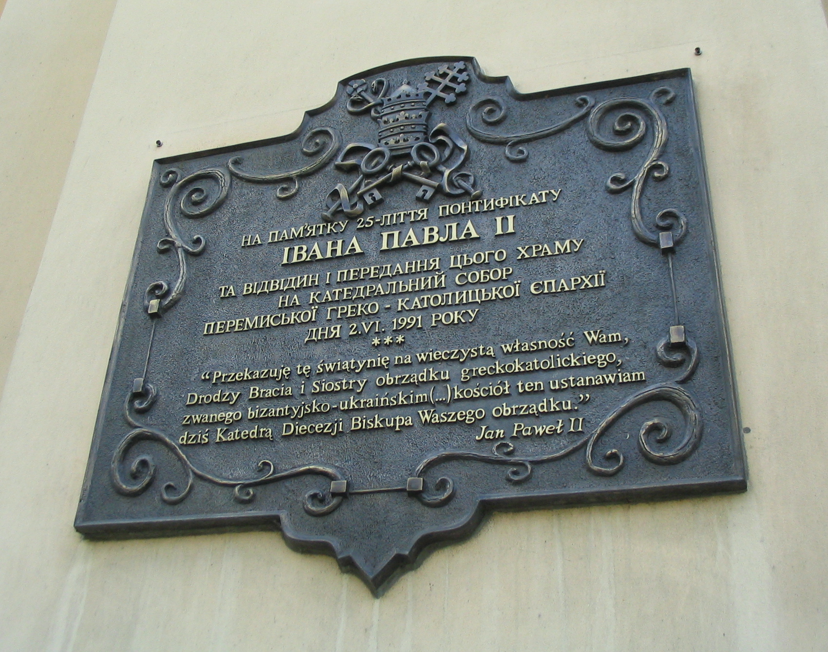 Greek Catholic Cathedral in Przemyśl, Poland.